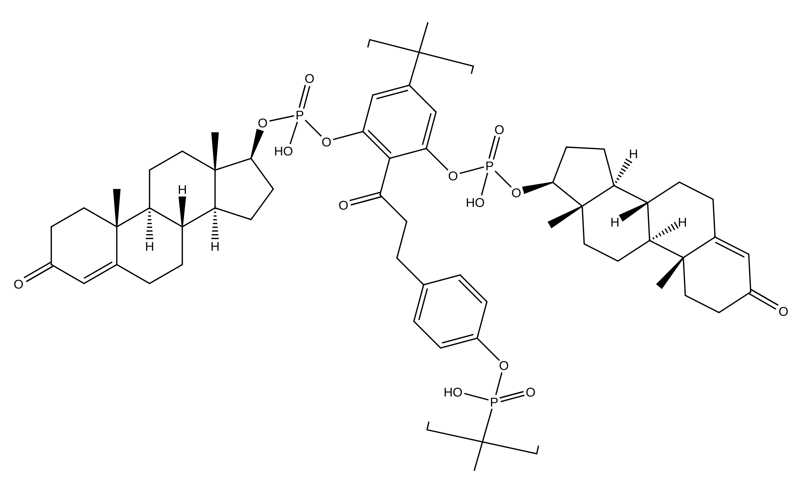 Chemical structure of polytestosterone phloretin phosphate. Made using ChemDraw JS.